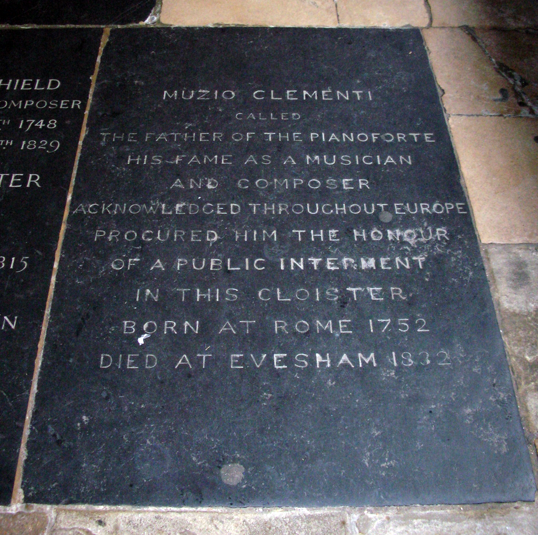 Memorial stone to Muzio Clementi, buried in the south cloister of Westminster Abbey, London, England.